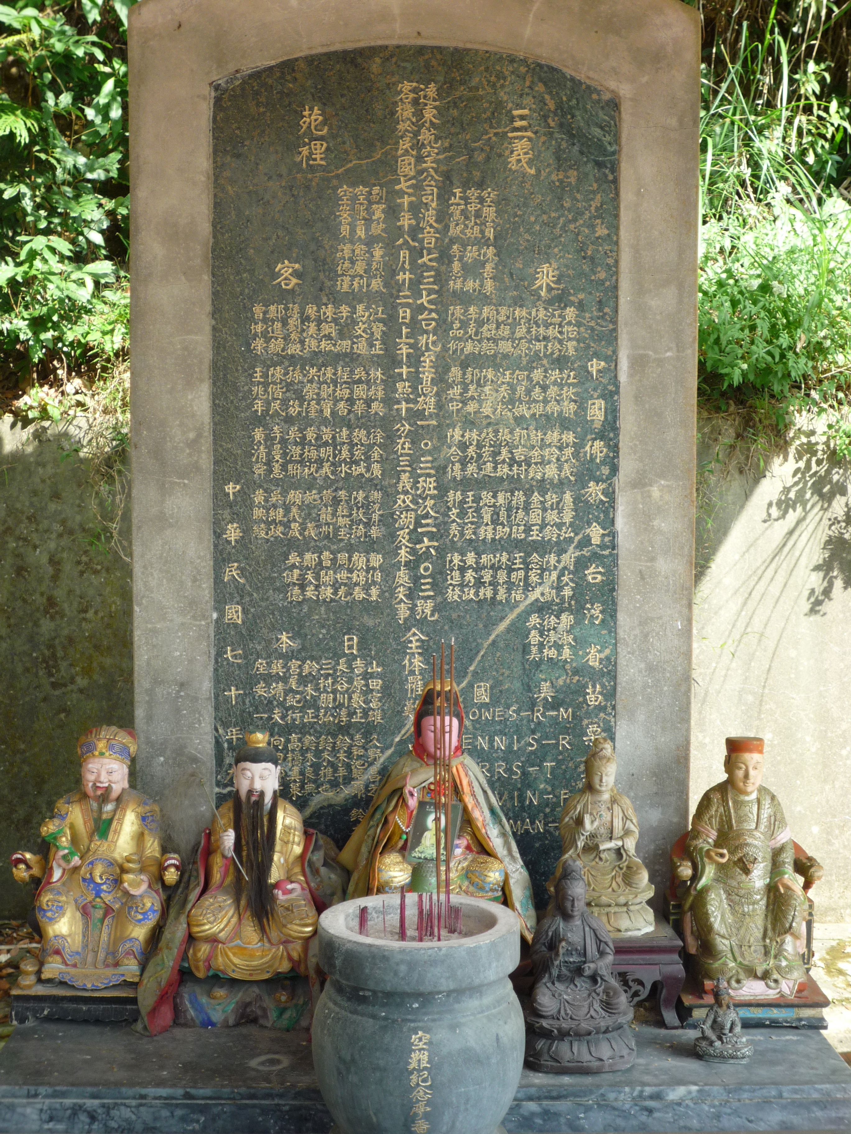 The cenotaph of Far Eastern Air Transport Flight 103 Accident, locate at border between Sanyi and Yuanli in Miaoli county, Taiwan. This cenotaph was established by Miaoli branch of Buddhism Association ROC.